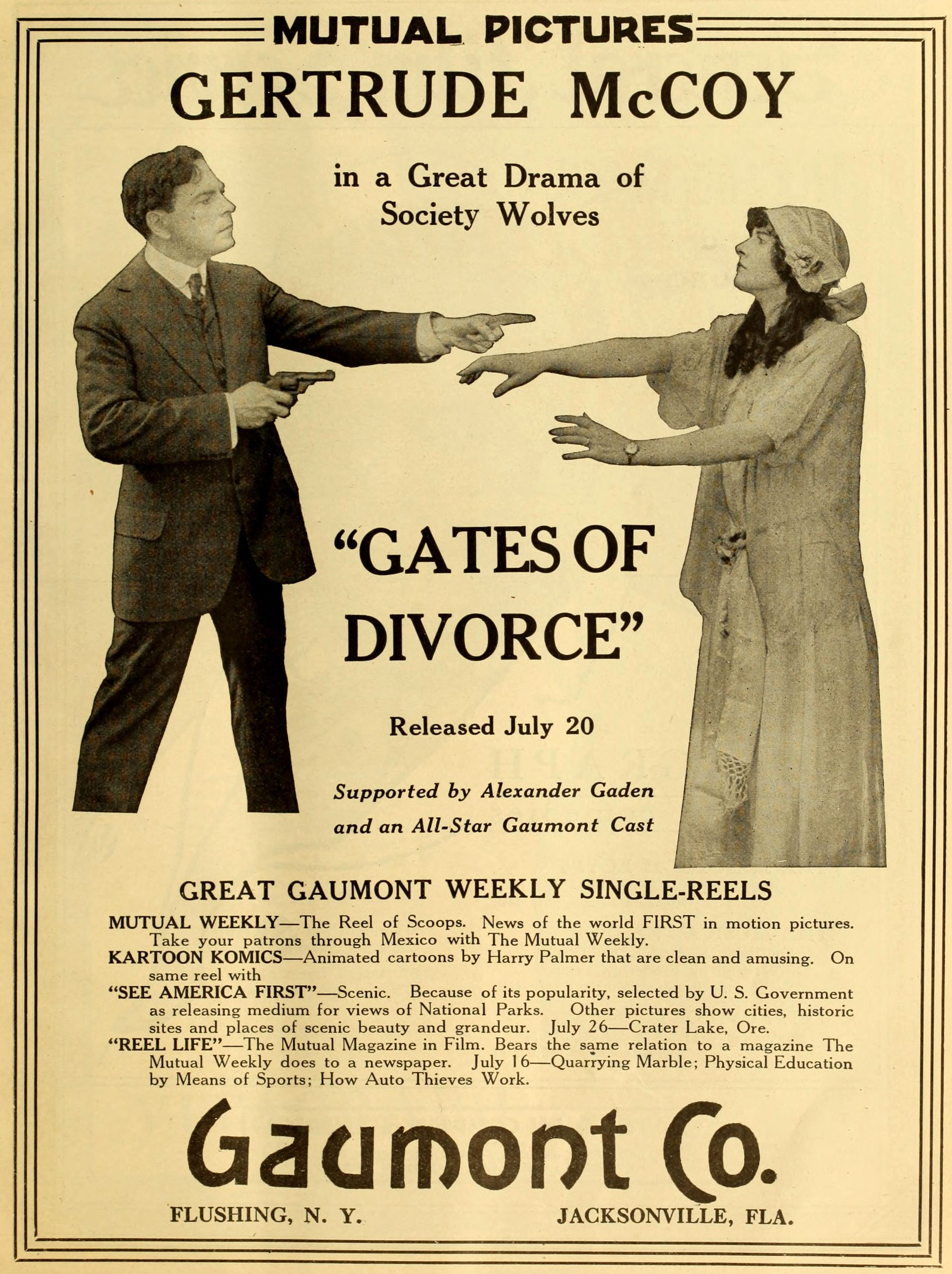 Advertisement in Moving Picture World